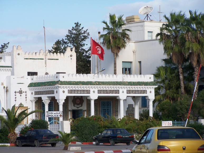 (c) 2005, Niels Elgaard Larsen La Goulette Police station.